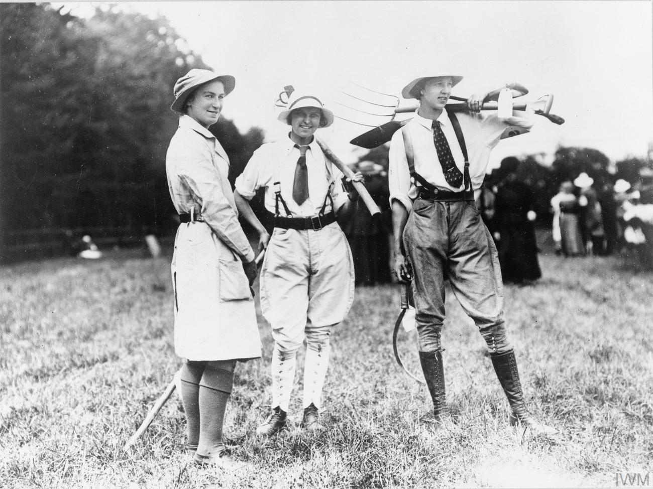 The Womens Land Army, 1917 The "All England" Girls' Farming Competition at the Whitehall Estate, Bishop's Stortford - three of the competitors.